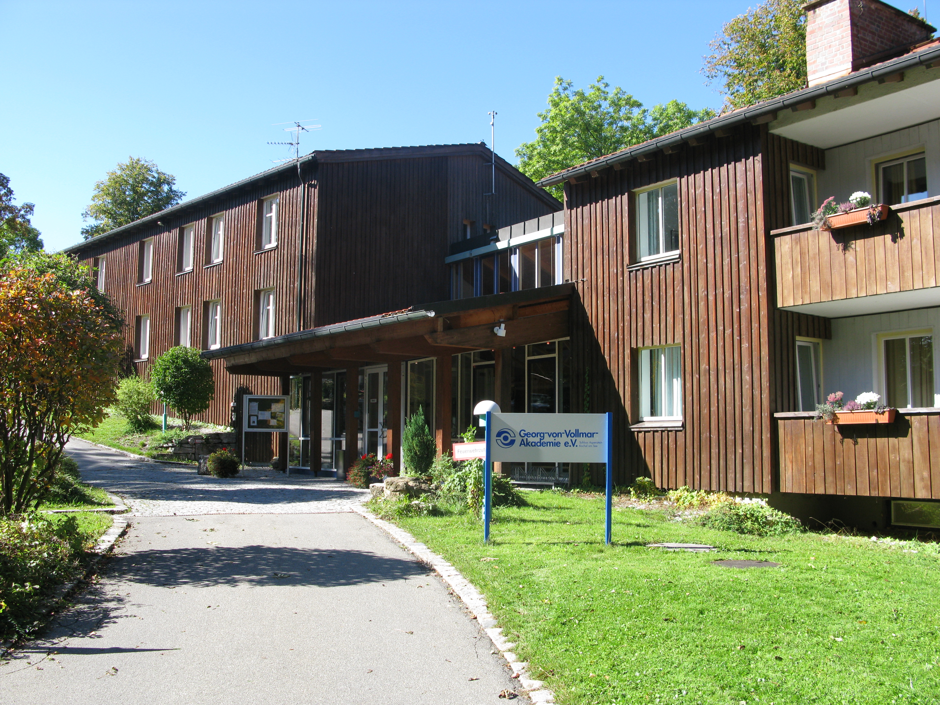 A wing of the Georg-von-Vollmar-Akademie with the guestrooms and seminar rooms in Kochel am See, Upper Bavaria, Germany.